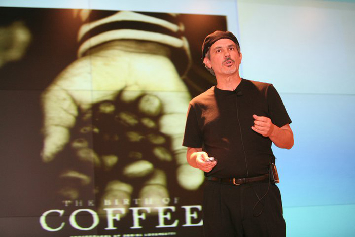 Daniel Lorenzetti speaking about The Birth of Coffee project